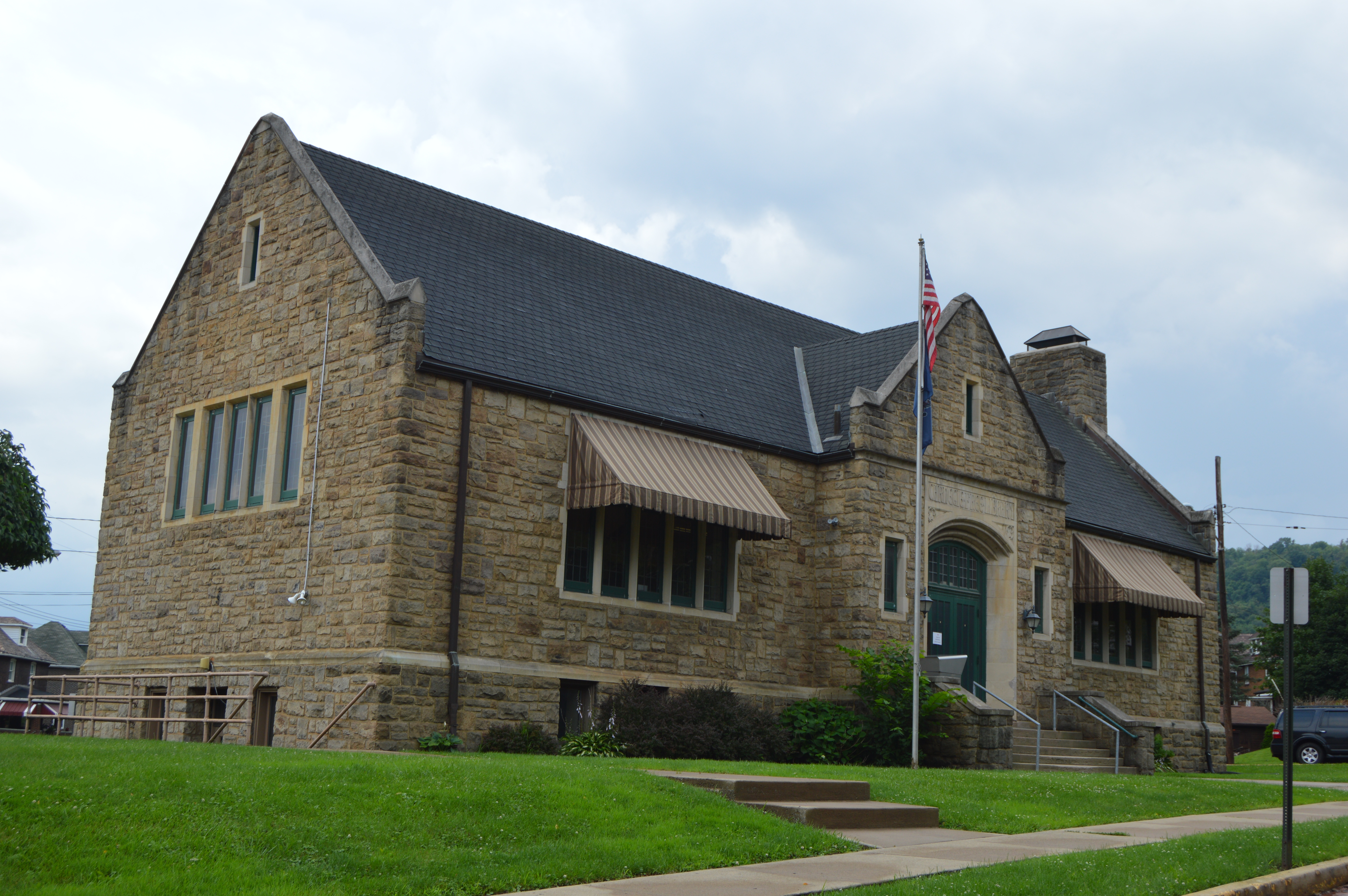 Front of the Midland Carnegie Library, located at 61 Ninth Street in Midland, Pennsylvania, United States. It was built in 1916.